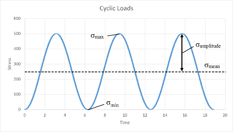 Graphical display of cyclic loading that causes fatigue